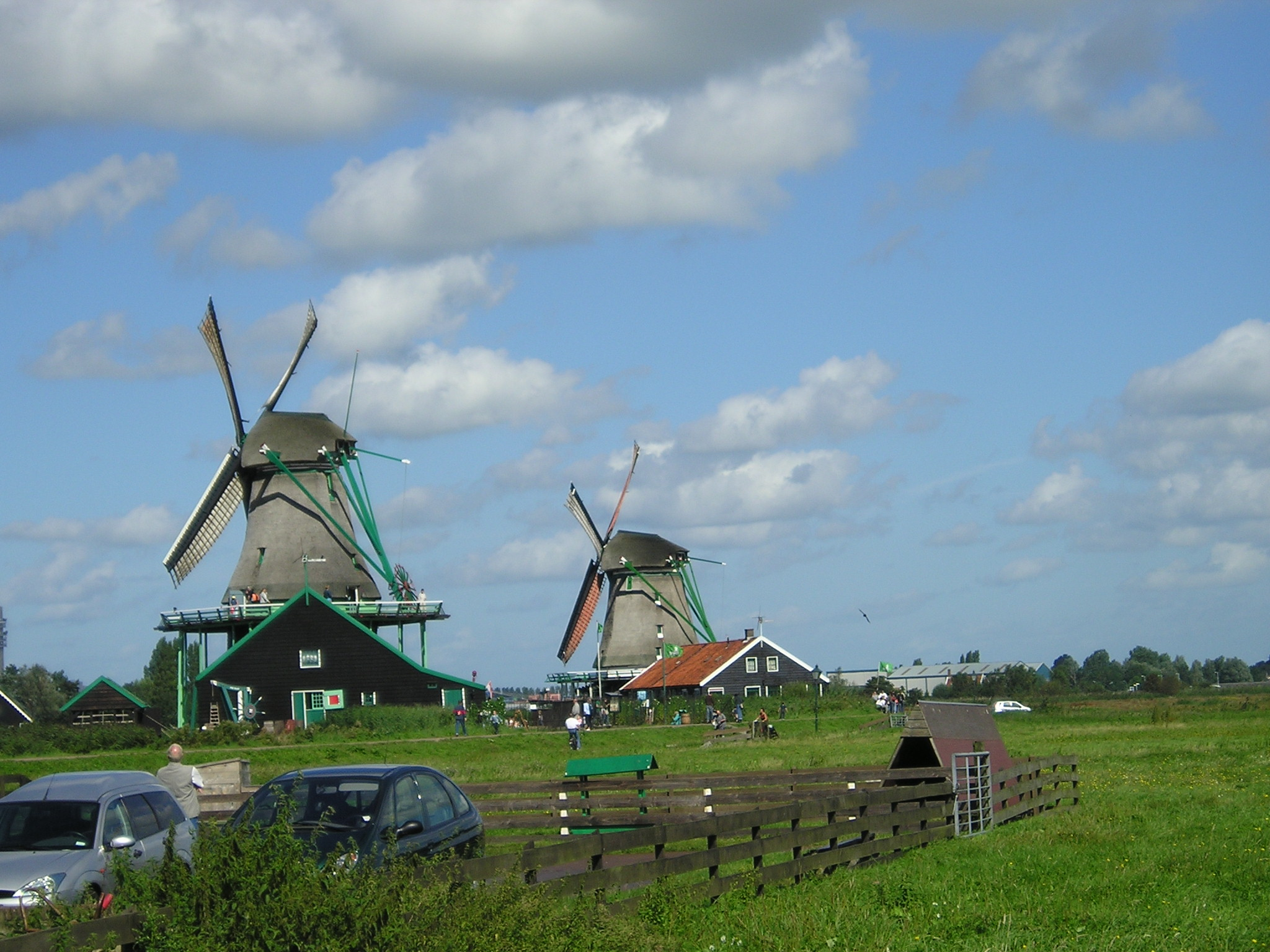 De Kat and the De Zoeker, the famous mills from Edam, Holland. (This photo was made by me)